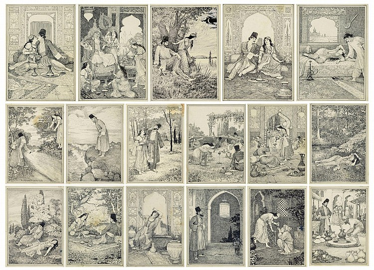 Home Auction Houses Christie's South Asian Modern + Contemporary Art Select Language​▼ MAHADEV VISWANATH DHURANDHAR (1867-1944) Untitled (Rubaiyat of Omar Khayyam) pen and ink on paper 10 7/8 x 8 in. (27.6 x 20.3 cm.) each image M. V. Dhurandhar (1867 - 1944) Lot 407: MAHADEV VISWANATH DHURANDHAR (1867-1944) Untitled (Rubaiyat of Omar Khayyam) pen and ink on paper 10 7/8 x 8 in. (27.6 x 20.3 cm.) each image Sold: Log in to view Christie's March 20, 2019 New York, NY, US View more details More About this Item Item Overview Description MAHADEV VISWANATH DHURANDHAR (1867-1944) Untitled (Rubaiyat of Omar Khayyam) signed and dated ‘M. V. DHURANDHAR 1943’ (lower edge); further inscribed with verses of Omar Khayyam (on the reverse) each pen and ink on paper 10 7/8 x 8 in. (27.6 x 20.3 cm.) each image Executed in 1943; seventeen works on paper 17 Provenance Private Collection, Jaipur Osian’s Mumbai, 27 March 2003, lot 9 Acquired from the above by the present owner Request more information Auction Details